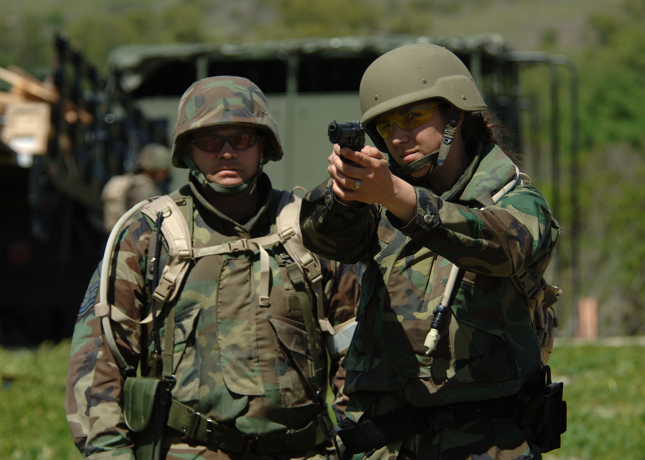 Camp Pendleton, Calif. (April 19, 2006) - U.S. Navy Journalist 2nd Class Brooke Armato practices her aim, while U.S. Air Force Master Sgt. Richard Inman serves as line coach during a live fire training exercise. The bi-annual Quick Shot field exercise enhances the combat photographers' war fighting capabilities, including combat documentation and a variety of tactical skills. U.S. Navy photo by Photographers Mate 1st Class Keith W. DeVinney (RELEASED)